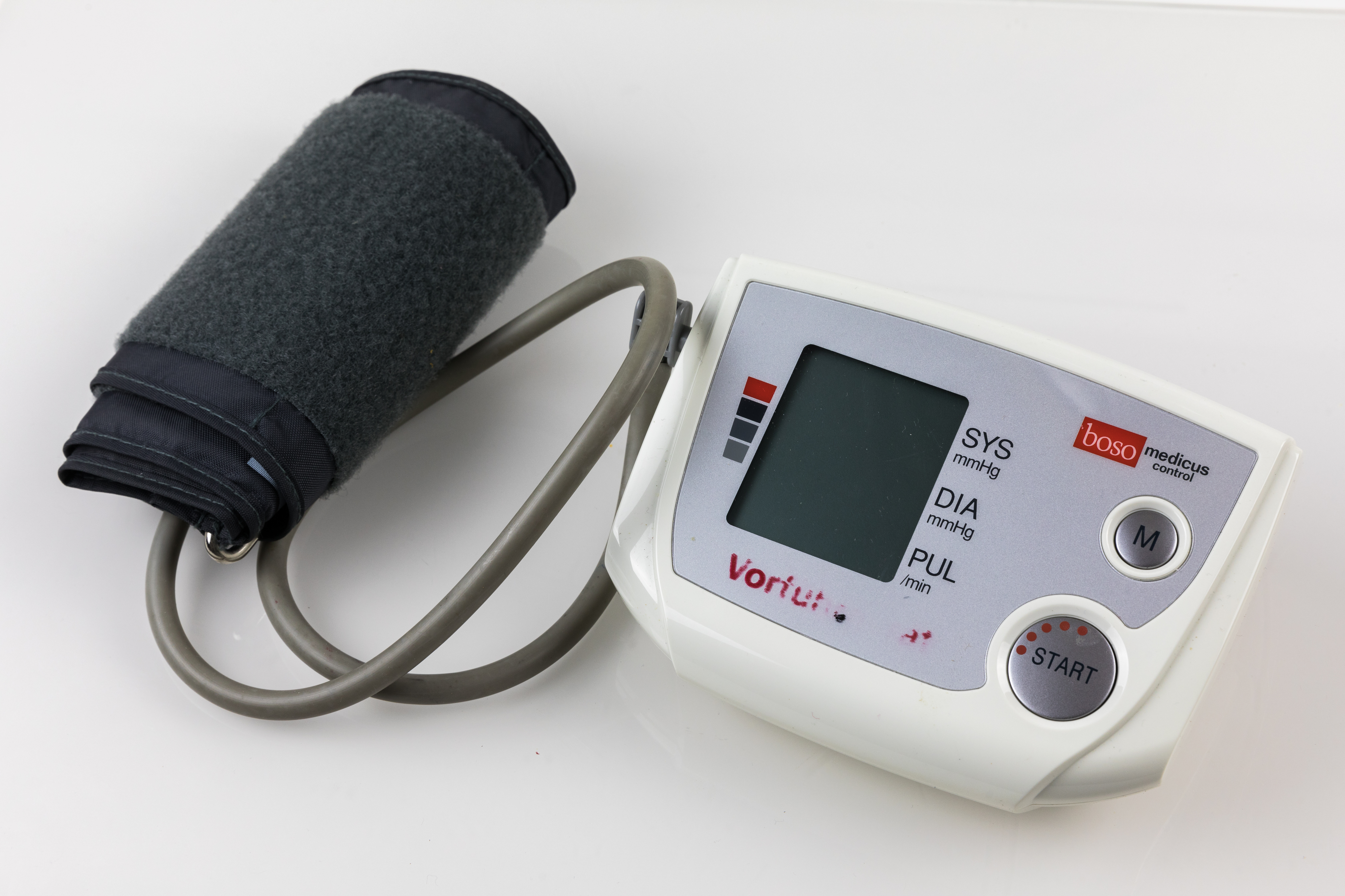 boso medicus control - Sphygmomanometer